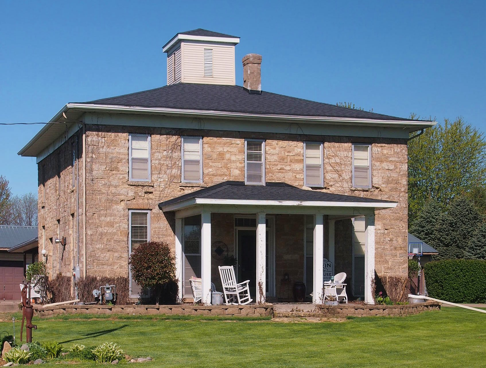 Daniel F. Akin House, 19185 Akin Rd, Farmington, Minnesota, USA. Viewed from the east.